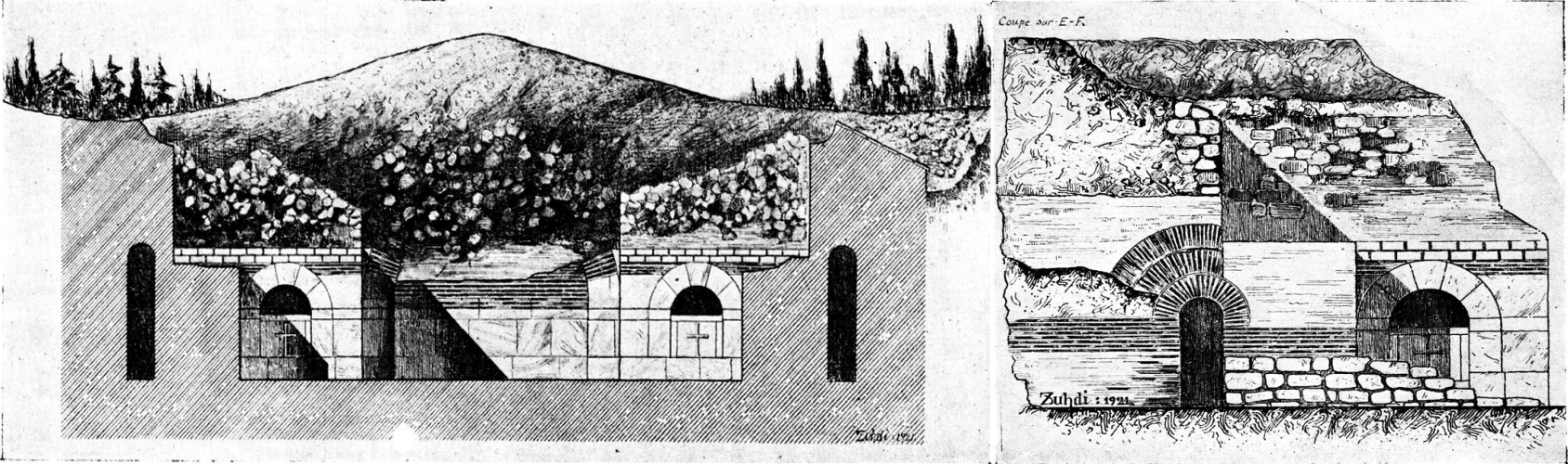 Scheme of a burial in Hebdomon/Macry-Keuy byMacridy-Bey Th, Ebersolt J. Monuments funéraires de Constantinople // Bulletin de correspondance hellénique. — 1922. — Т. 46. — С. 356-393. —